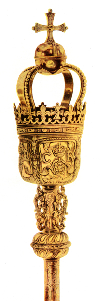 An illustration of a Mace, part of the Crown Jewels of the United Kingdom.